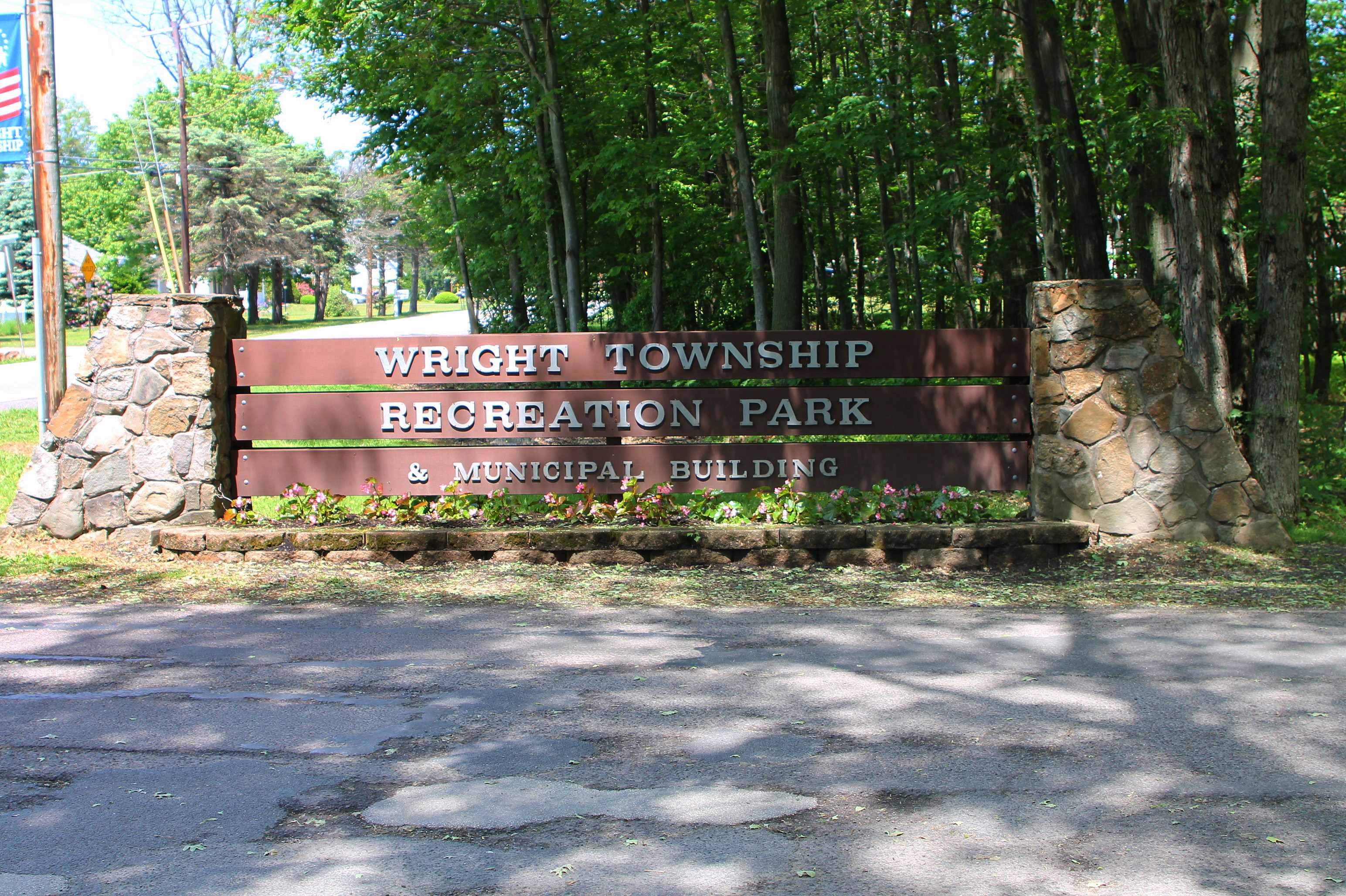 Sign for the Wright Township Municipal Park and municipal building in Luzerne County, PA.